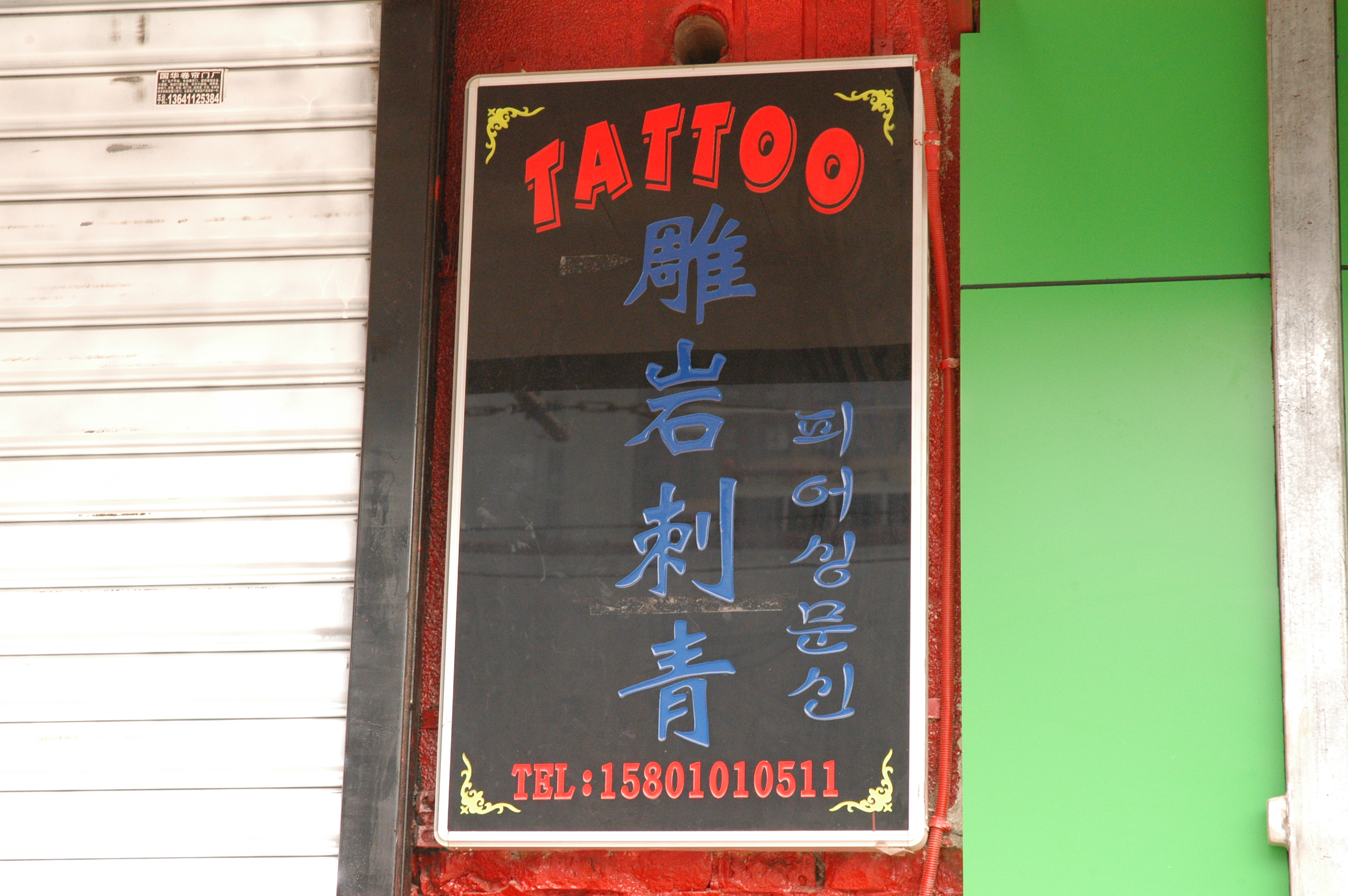 Tattoo studio sign in Chaoyang District, Beijing China.